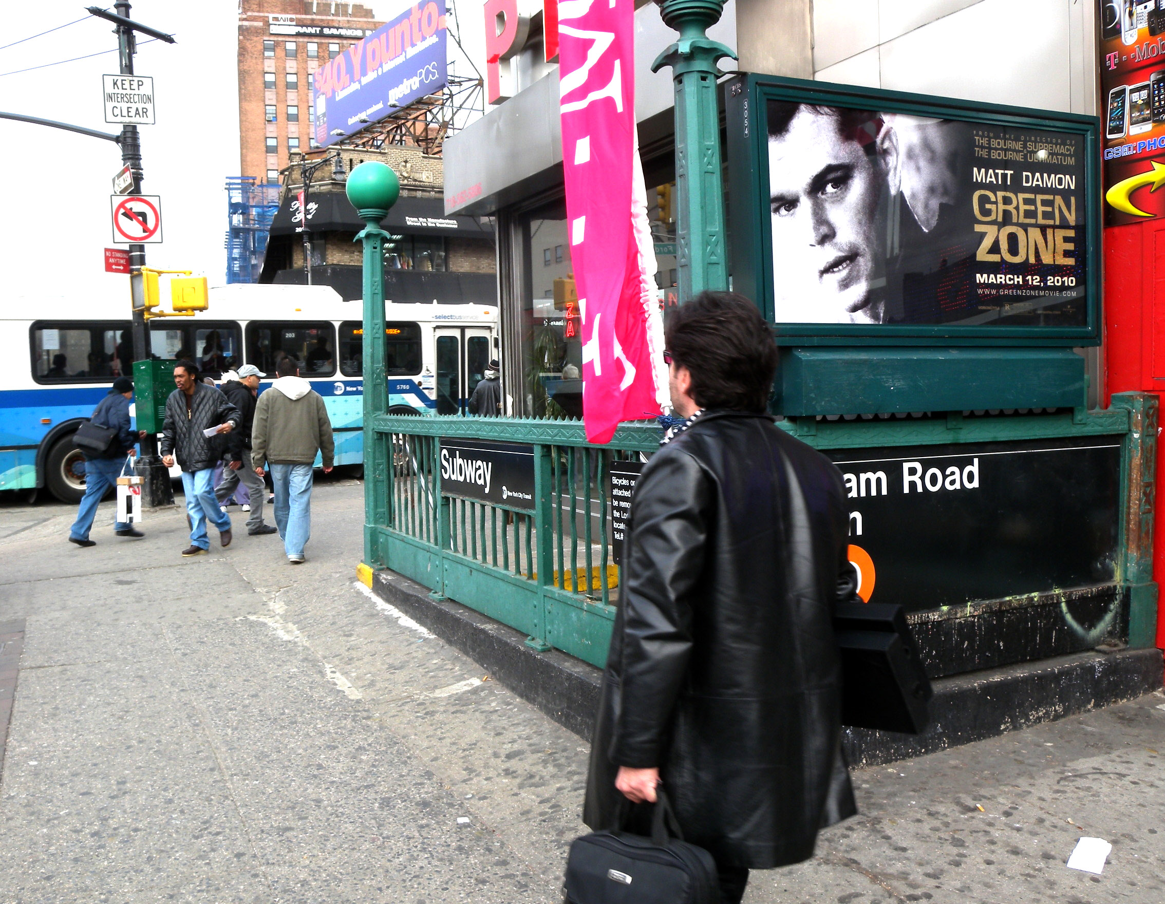 Looking north at Fordham Road (IND Concourse Line) eastern stair on a cloudy afternoon.